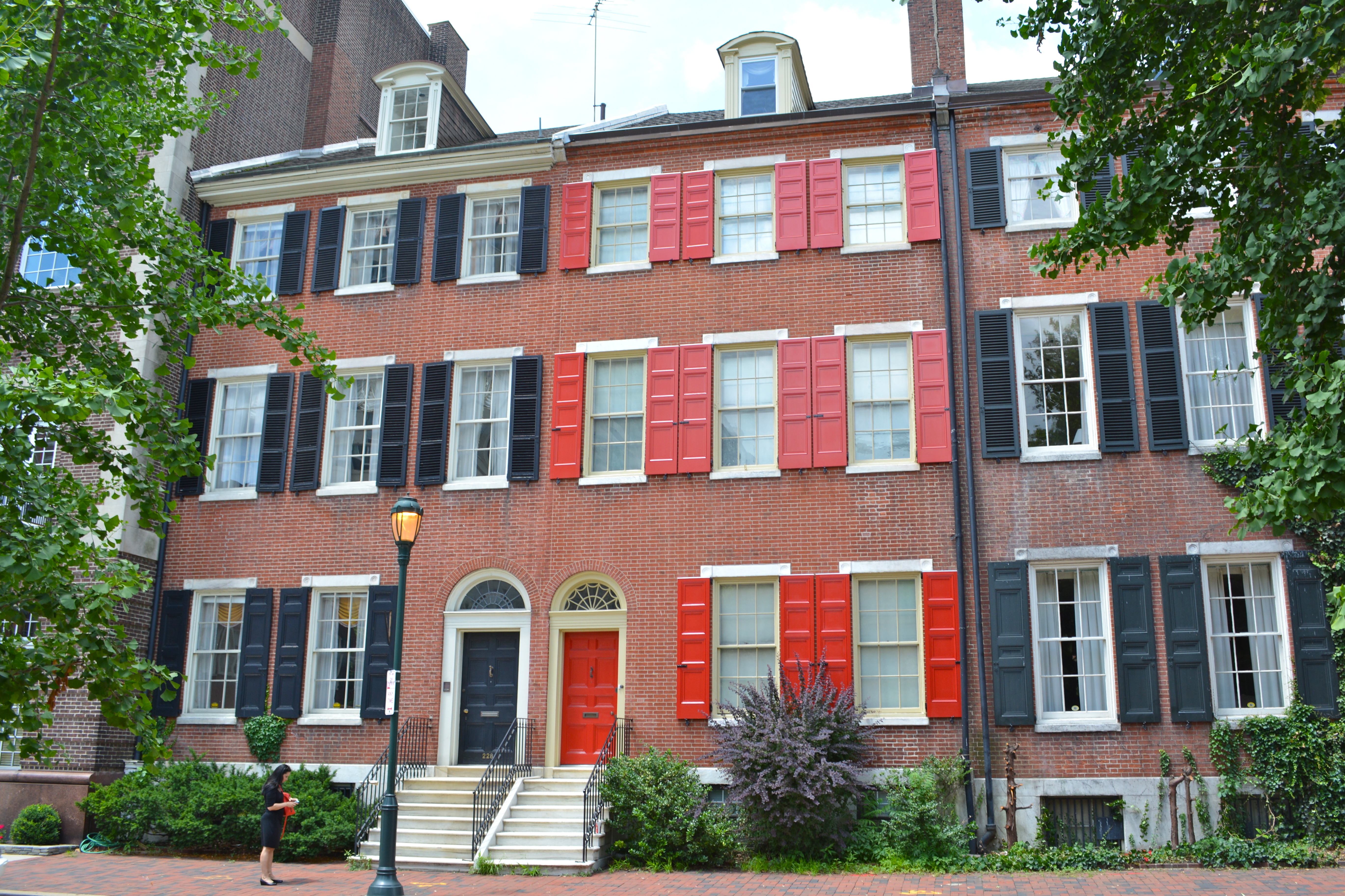 Building in the Society Hill or Old Town neighborhoods of Philadelphia, not far from Independence Hall